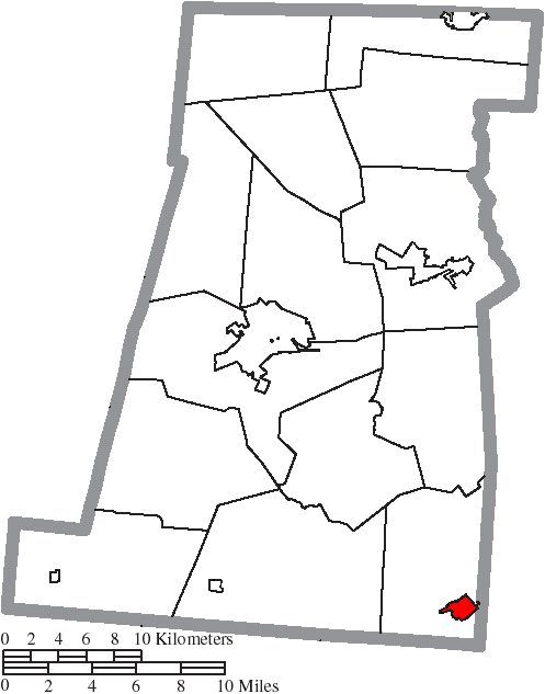 Map of the municipal and township boundaries of Madison County, Ohio, United States, as of the 2000 census, with the location of the village of Mount Sterling highlighted. Township borders are shown only in unincorporated areas in order to differentiate incorporated and unincorporated areas more clearly.